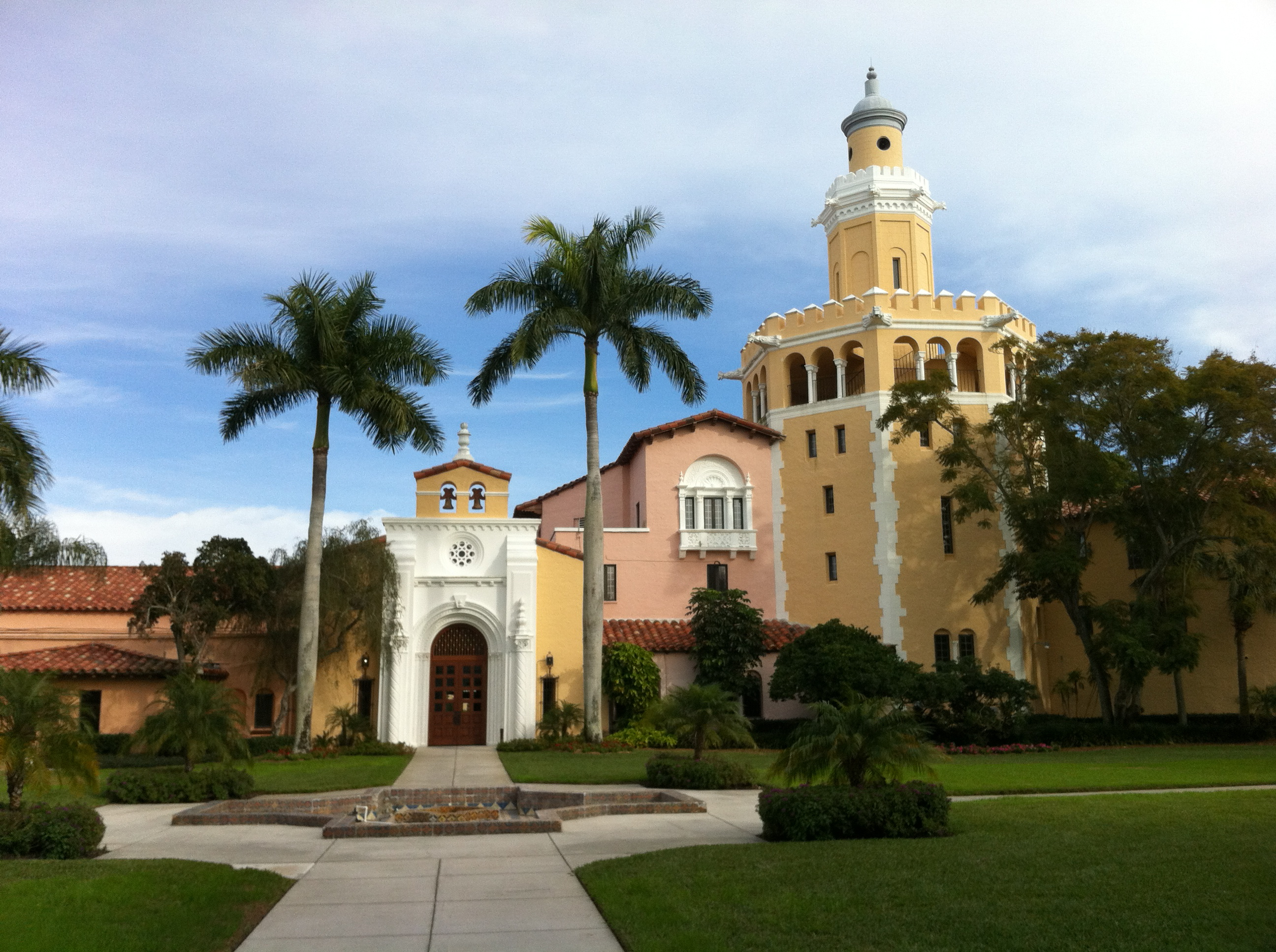 Main building of Stetson University College of Law in Gulfport, Florida